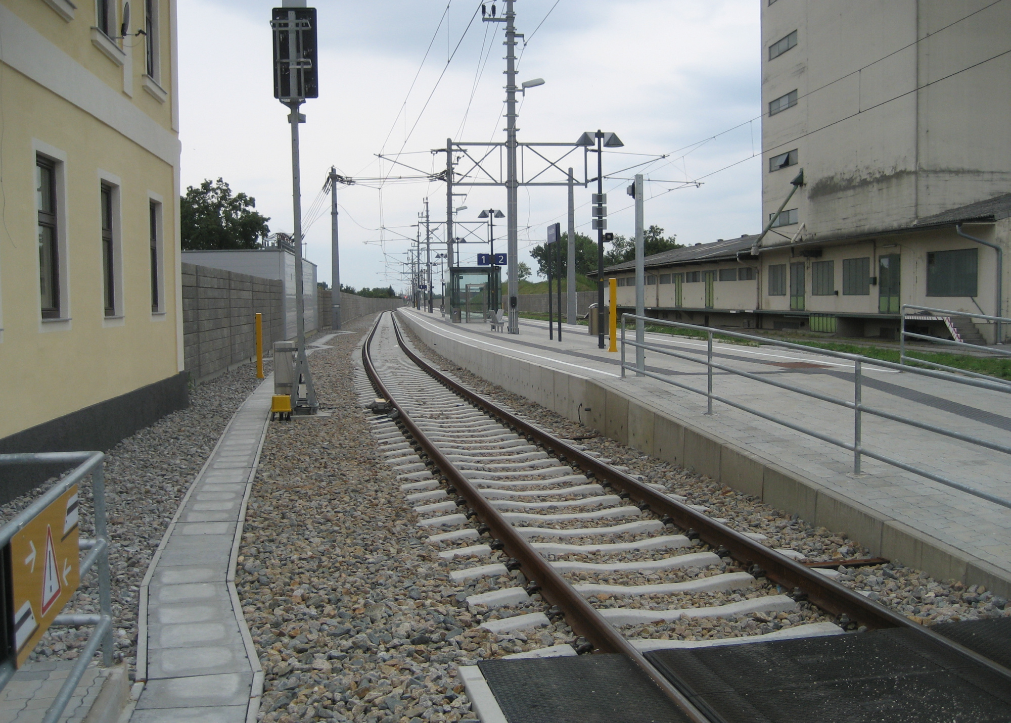 Hausleiten train station, in Lower Austria